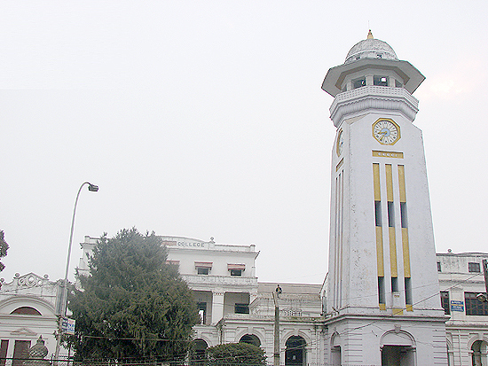 GhantaGhar, Kathmandu, Nepal